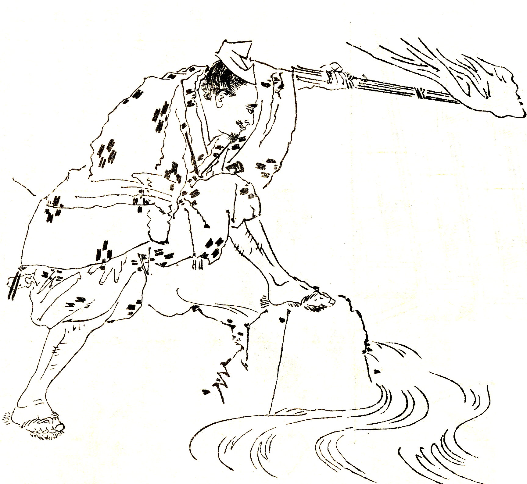 A drawing of Aoto Fujitsuna, a magistrate in Kamakura at the time of the Kamakura shogunate, fording the Namerikawa river trying to recover some coins he had lost.